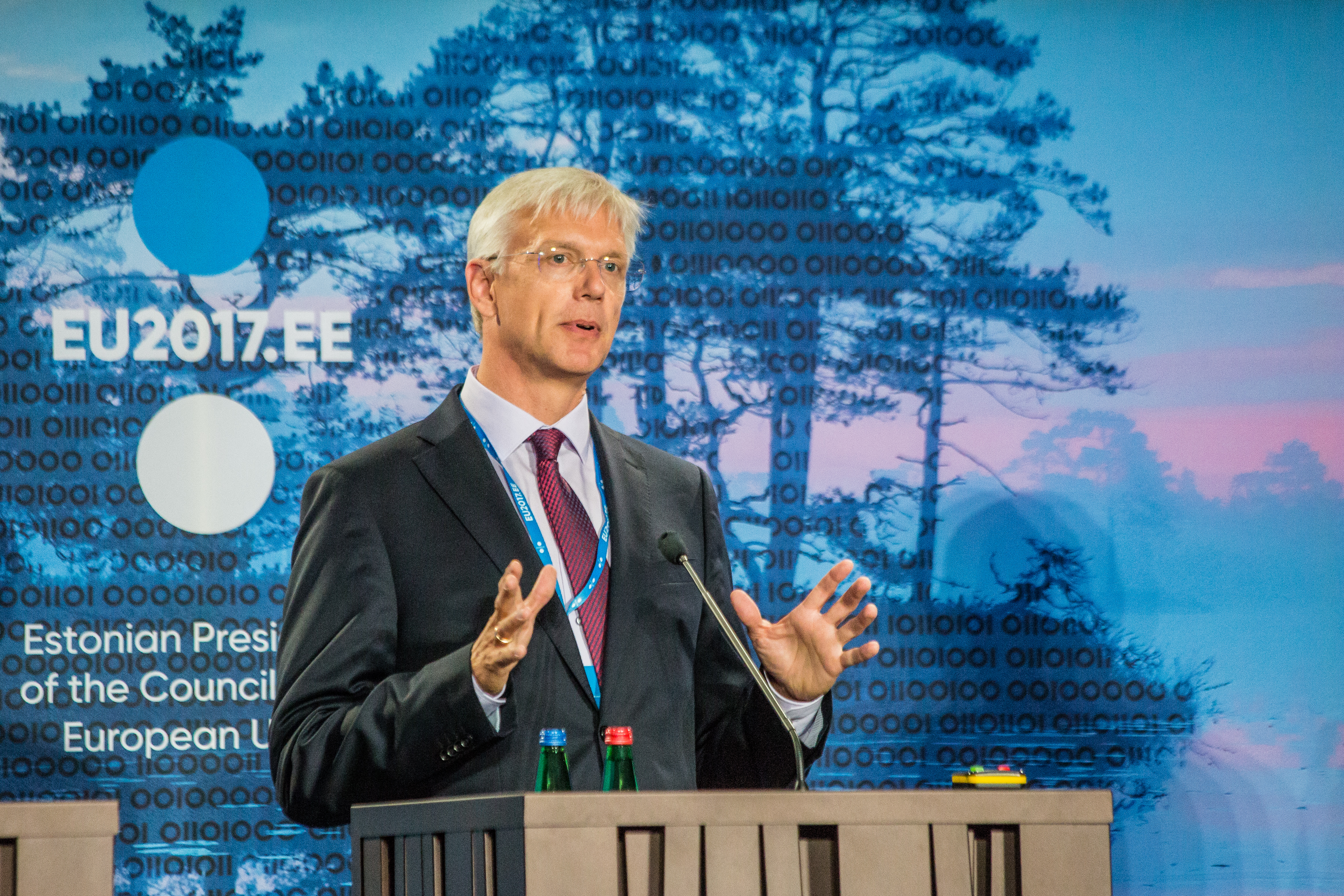 Krišjānis Kariņš, Coordinator of Committee on Industry, Research and Energy (ITRE), European Parliament Photo: Aron Urb (EU2017EE)